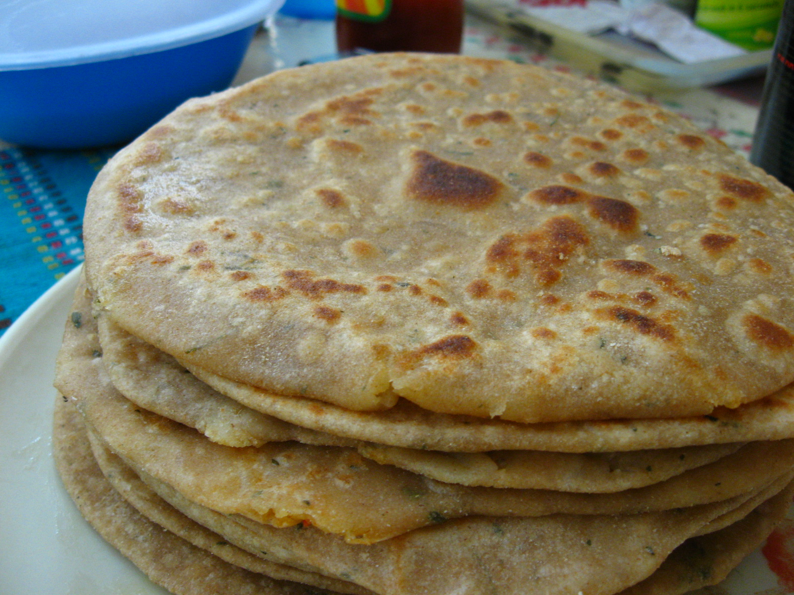 Aloo Paratha